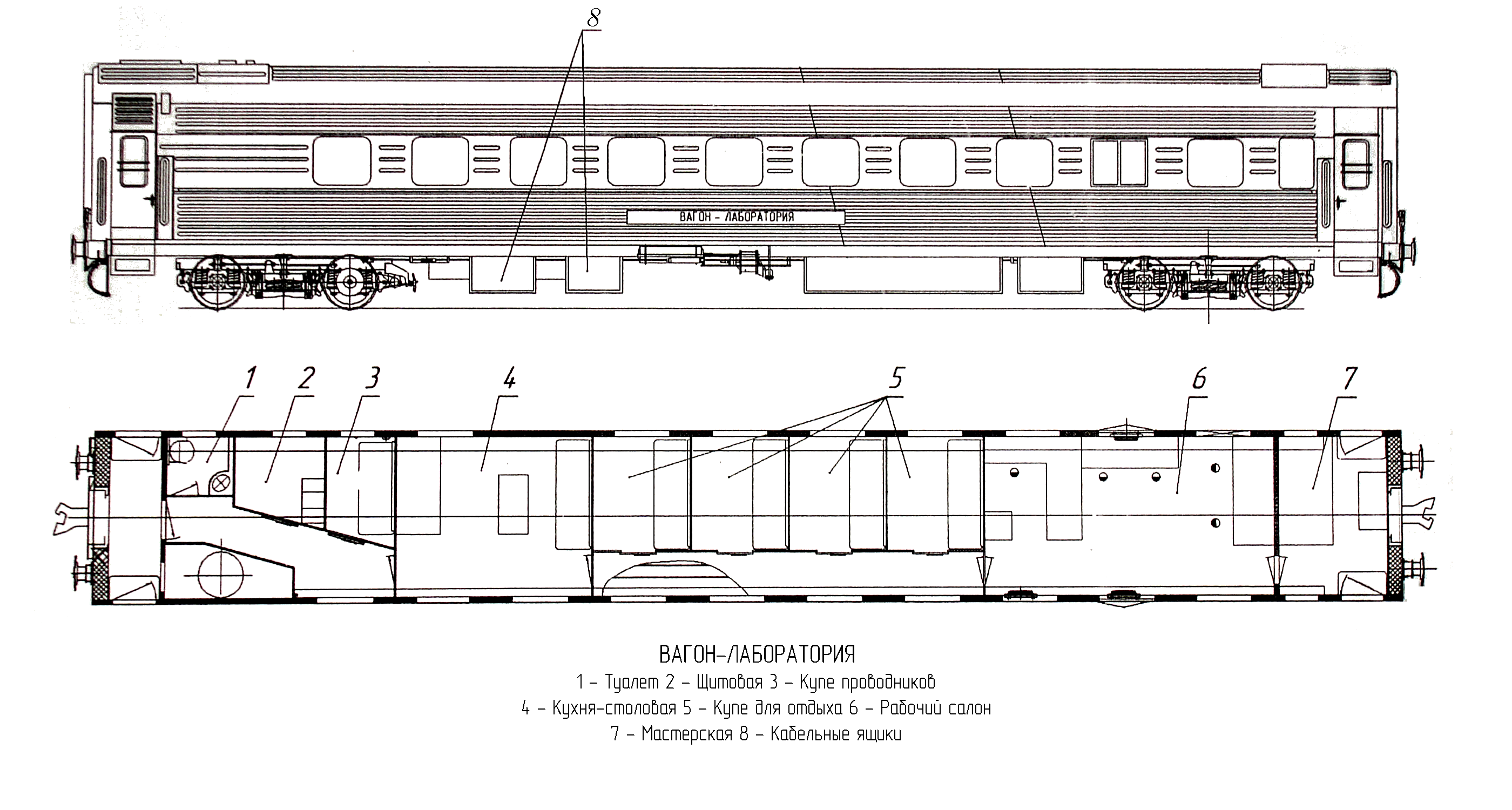 Laboratory rail car for ultrasonic tester repair